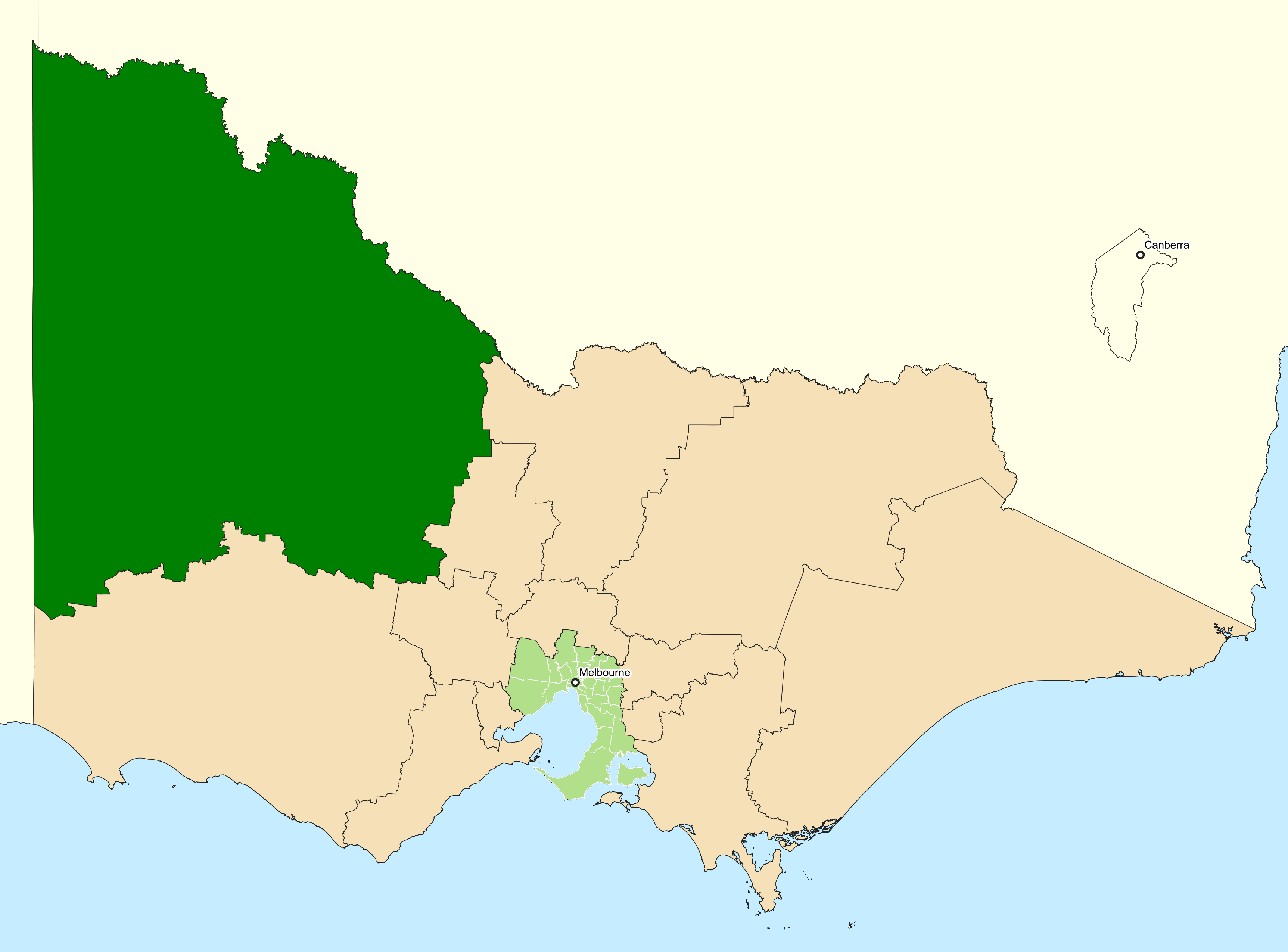 Location of the Australian federal electoral division of Mallee (dark green) in Victoria as of the 2019 Australian federal election. Incorporates or developed using Administrative Boundaries ©PSMA Australia Limited licensed by the Commonwealth of Australia under Creative Commons Attribution 4.0 International licence (CC BY 4.0).